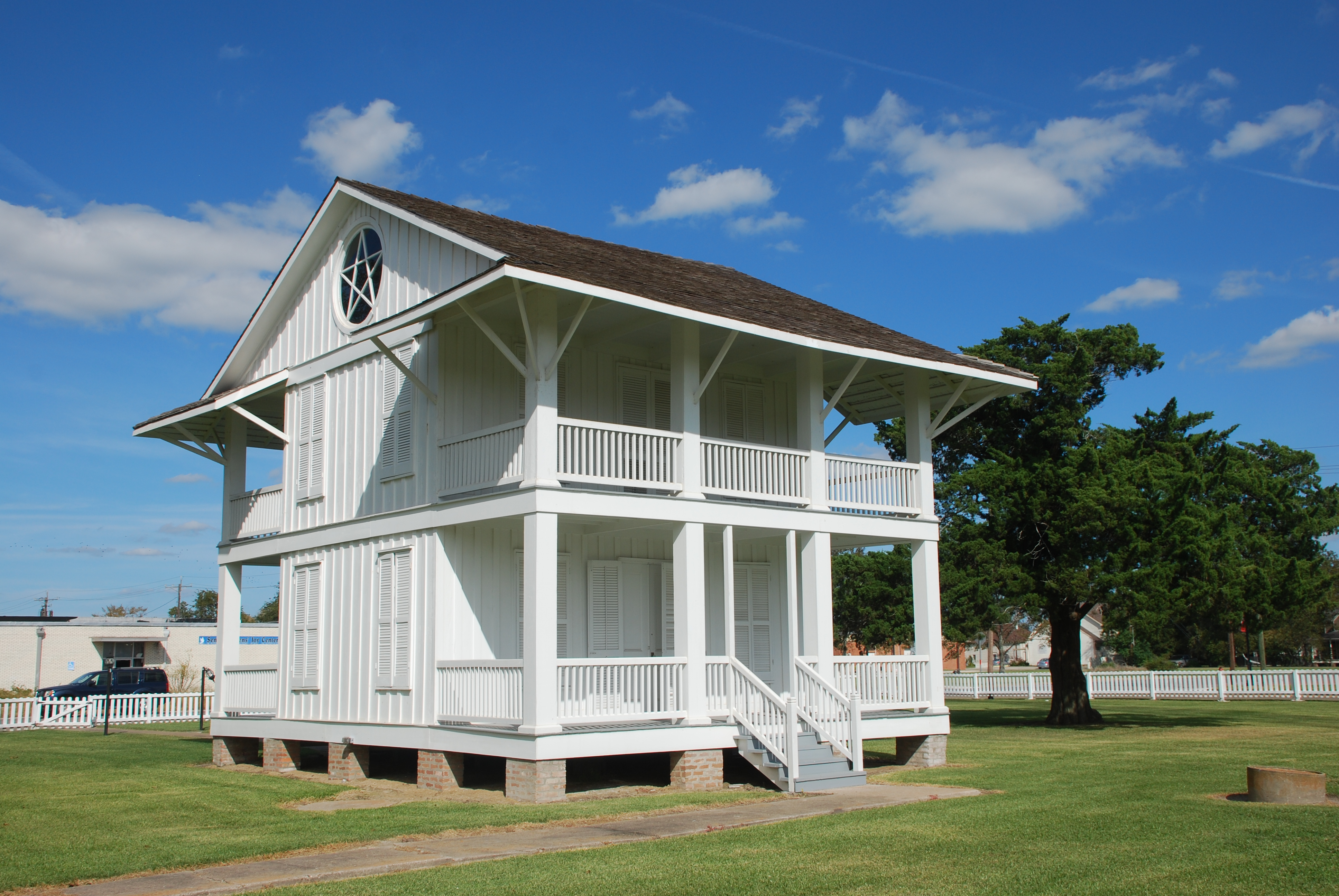 General Thomas Jefferson Chambers House, Anahuac (Texas, USA)